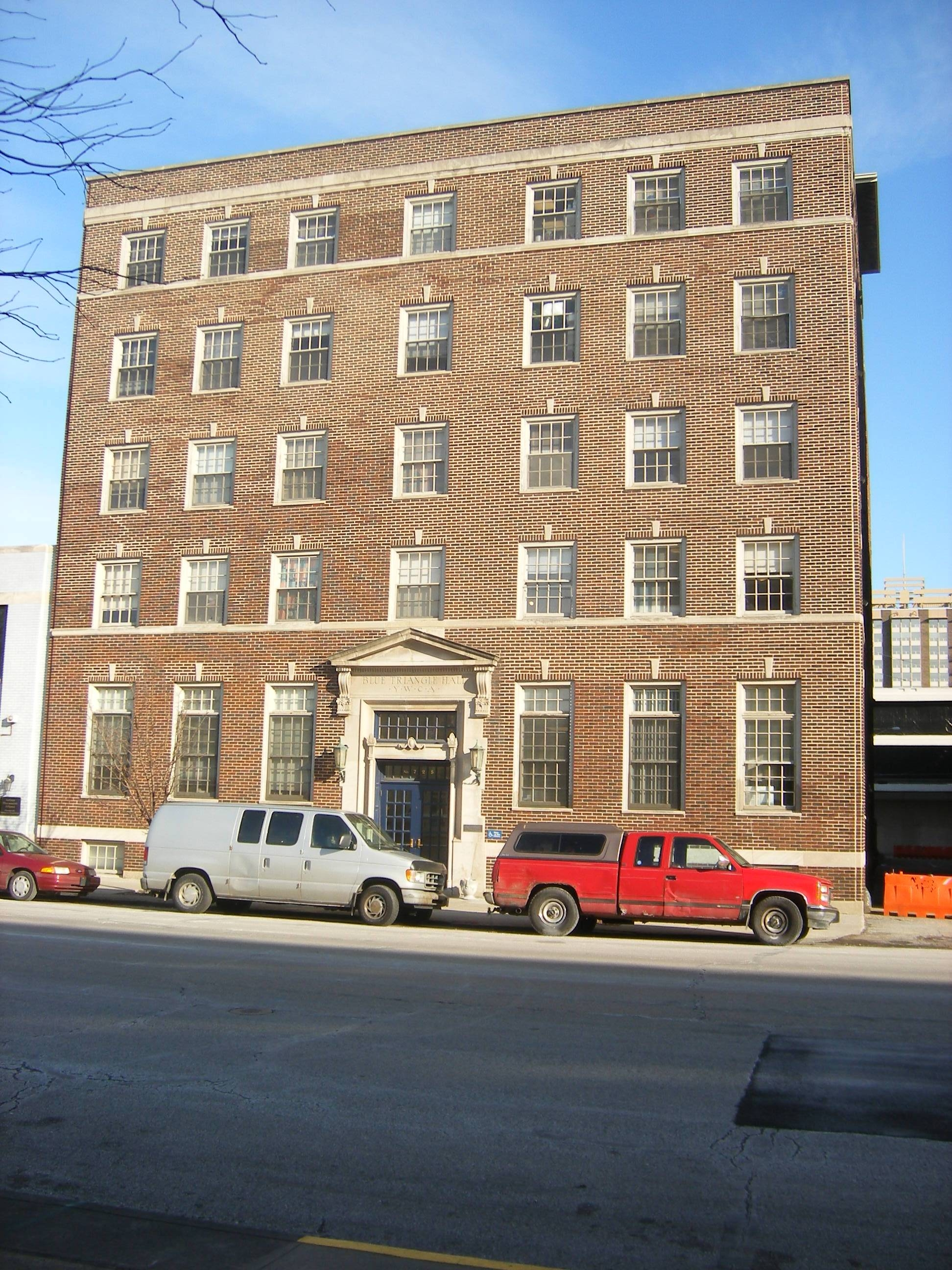 picture of the blue triangle hall from pennsylvania street